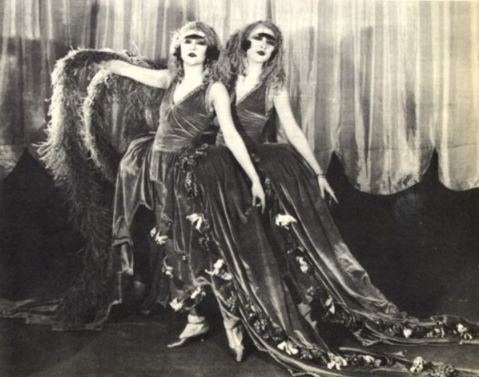 Personally scanned from pre-1923 magazine clippings.